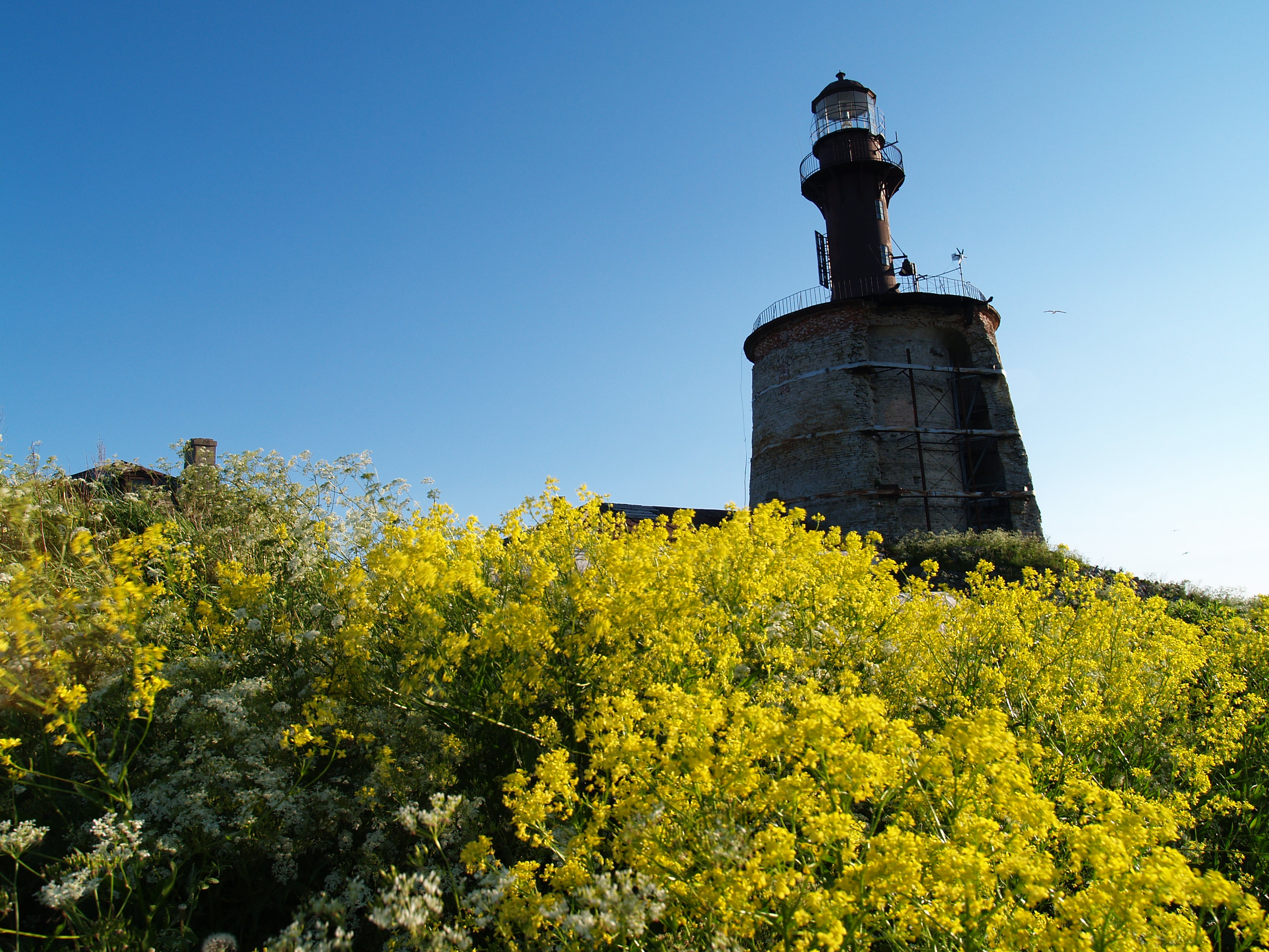 Keri lighthouse